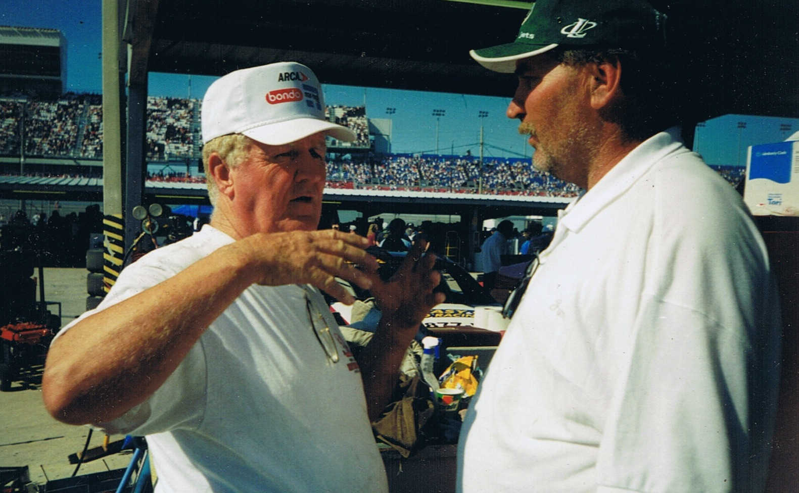 former NASCAR driver James Hylton (left), teaches Jim Lamorauex (right) how to qualify at Daytona 1999